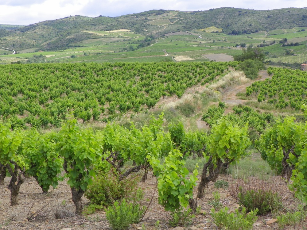 Vines around Villeneuve les Corbieres